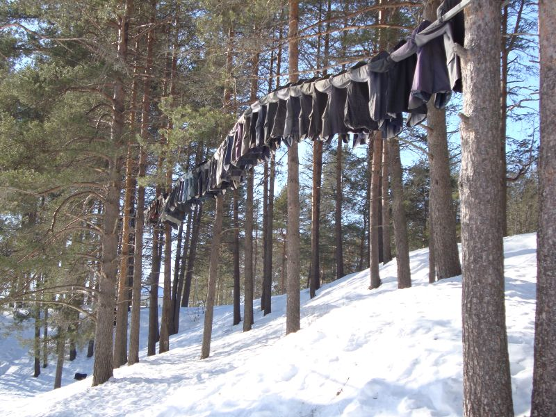 Umeå sculpture park/Sweden with A Path II (2004/10) by Kaarina Kaikkonen.